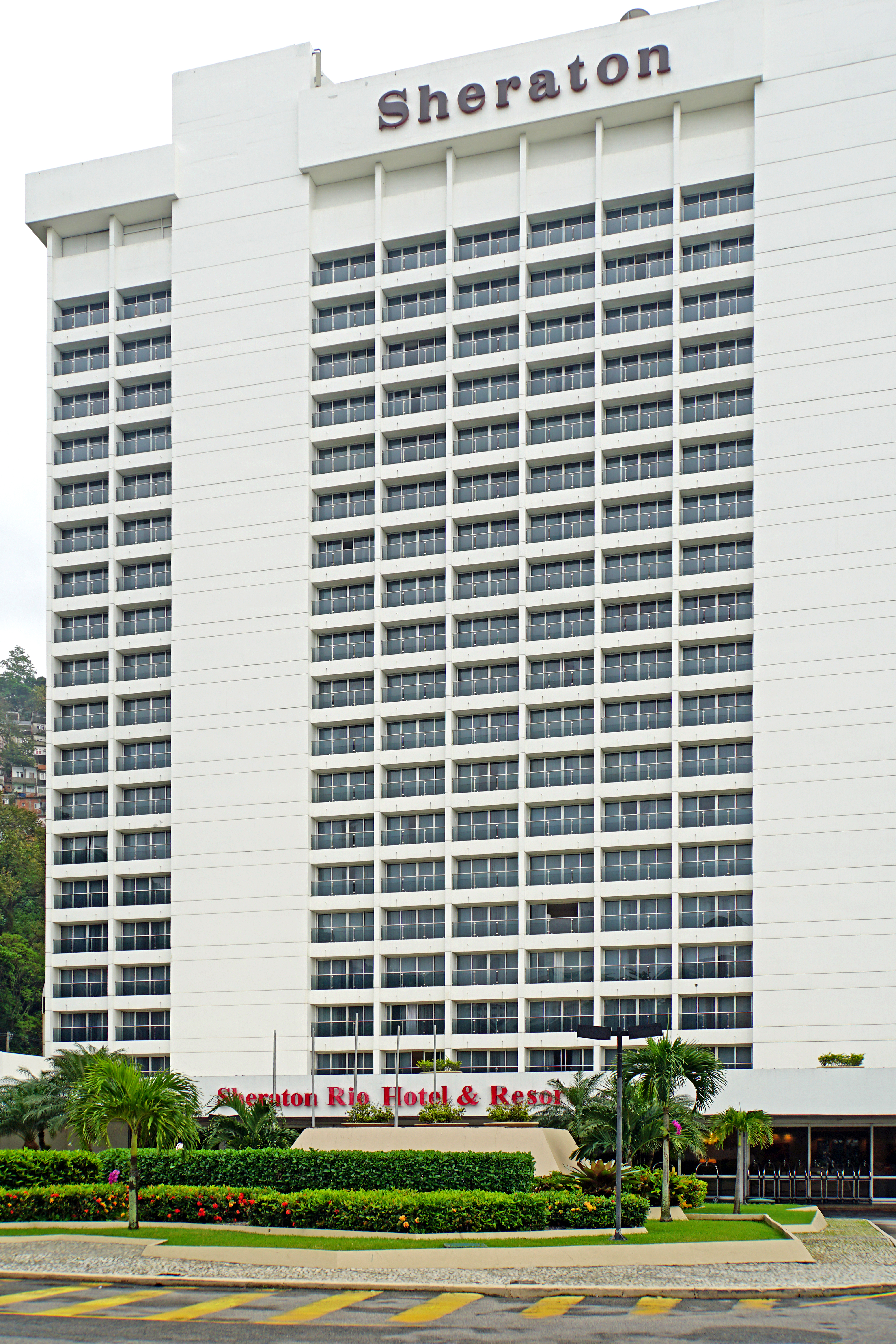 The place for the stay in Rio.